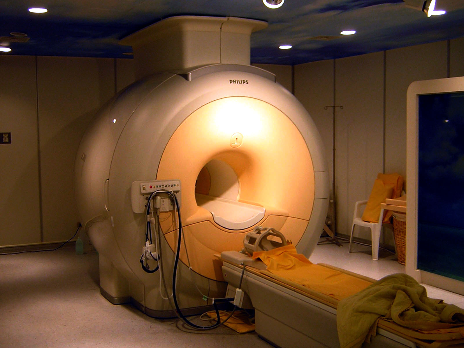 Modern high field clinical MRI scanner. (3T Achieva, the product of Philips at Best, the Netherlands.)